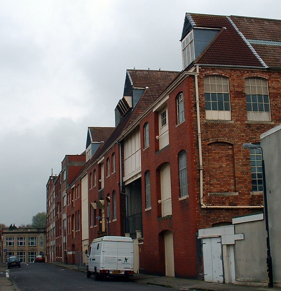 The Elizabeth Shaw chocolate factory on Co-operation Road Greenbank, Bristol.